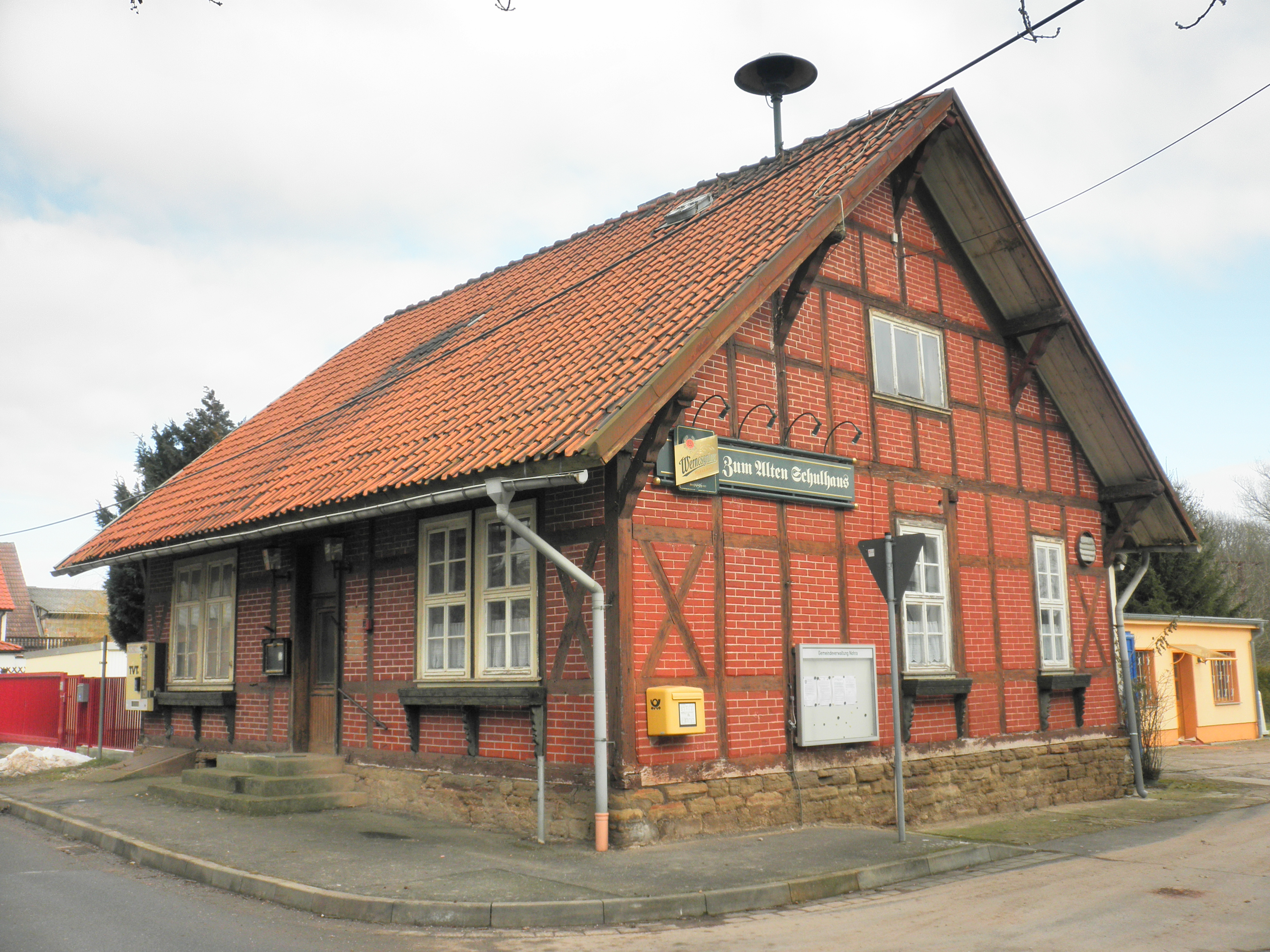 Old School Building in Mörbach in Thuringia